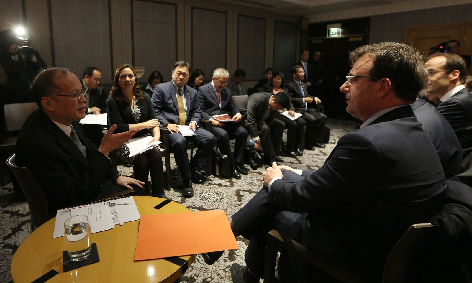 (PARIS, France) President Benigno S. Aquino III converses with Sanofi Pasteur chief executive officer Olivier Charmeil during a courtesy call at the Louis Lumiere Conference Room of the Hotel Scribe on Tuesday (December 01). Also in photo are Health Secretary Janette Garin, Finance Secretary Cesar Purisima, Trade and Industry Secretary Gregory Domingo and Transportation and Communications Secretary Joseph Emilio Aguinaldo Abaya.